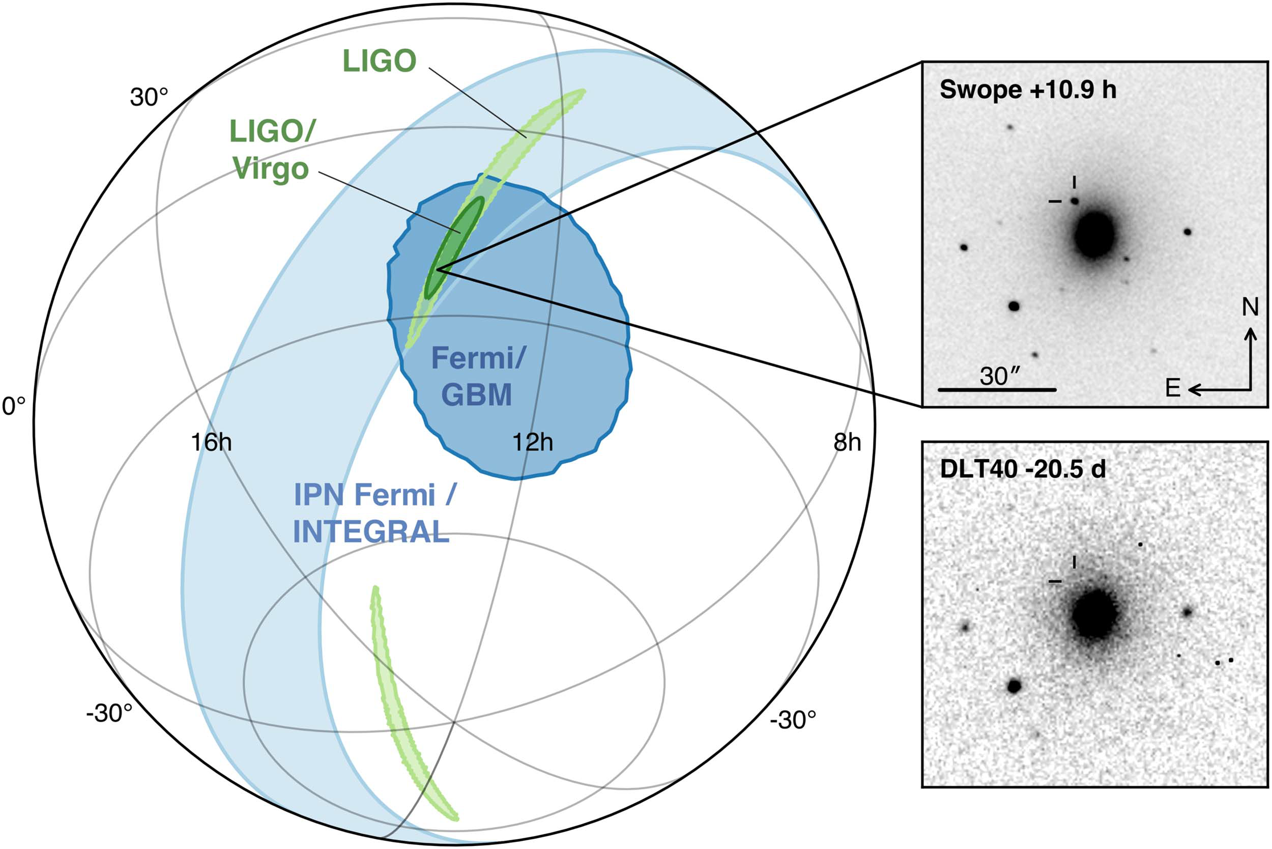 The left panel shows an orthographic projection of the 90% credible regions from LIGO (190 deg2; light green), the initial LIGO-Virgo localization (31 deg2; dark green), IPN triangulation from the time delay between Fermi and INTEGRAL (light blue), and Fermi-GBM (dark blue). The inset shows the location of the apparent host galaxy NGC 4993 in the Swope optical discovery image at 10.9 hr after the merger (top right) and the DLT40 pre-discovery image from 20.5 days prior to merger (bottom right). The reticle marks the position of the transient in both images.